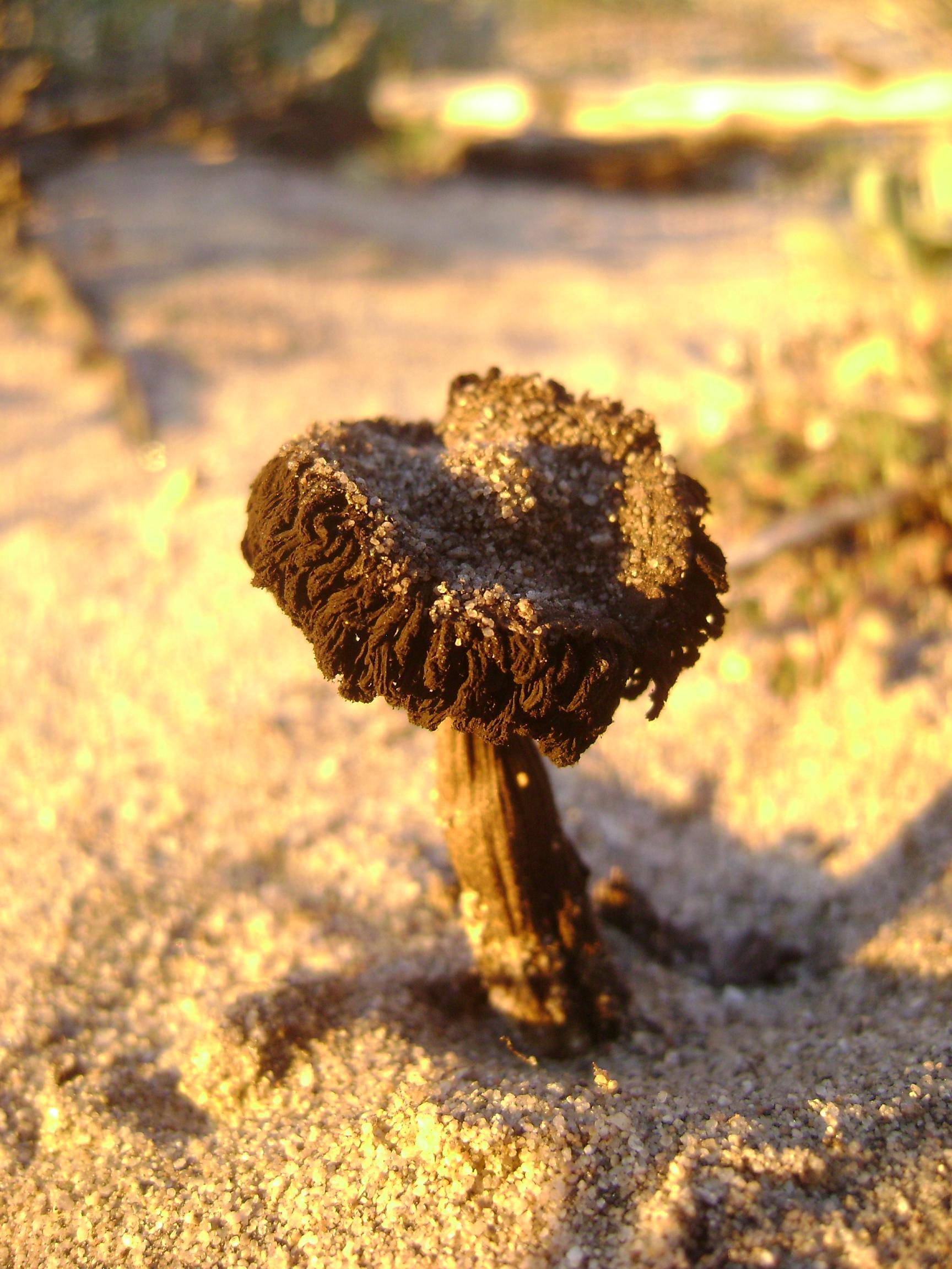 A fruit body of the fungus Gyrophragmium californicum. Found in Pt. Mugu, Ventura Co., California, USA.